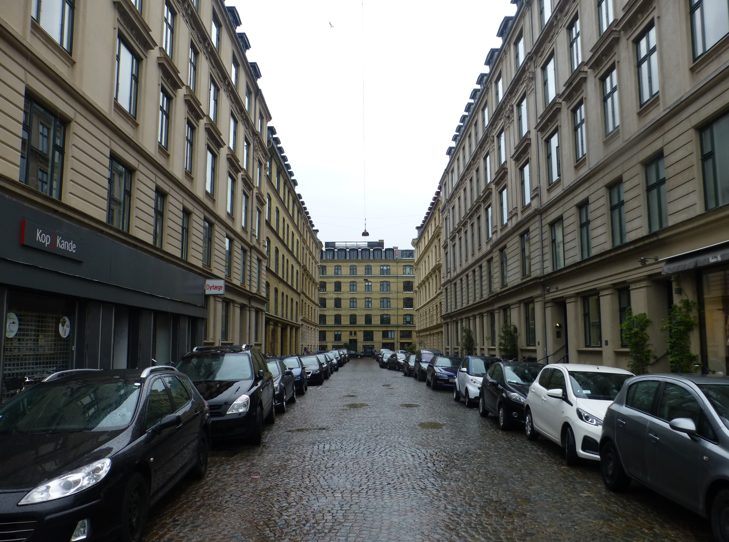 A street nicknamed ABC Gade in Østerbro in Copenhagen. While not an actual part of it, the street have house numbers of the street Østerbrogade, 54 A, B, C, D, E and 56 A, B, C, D.